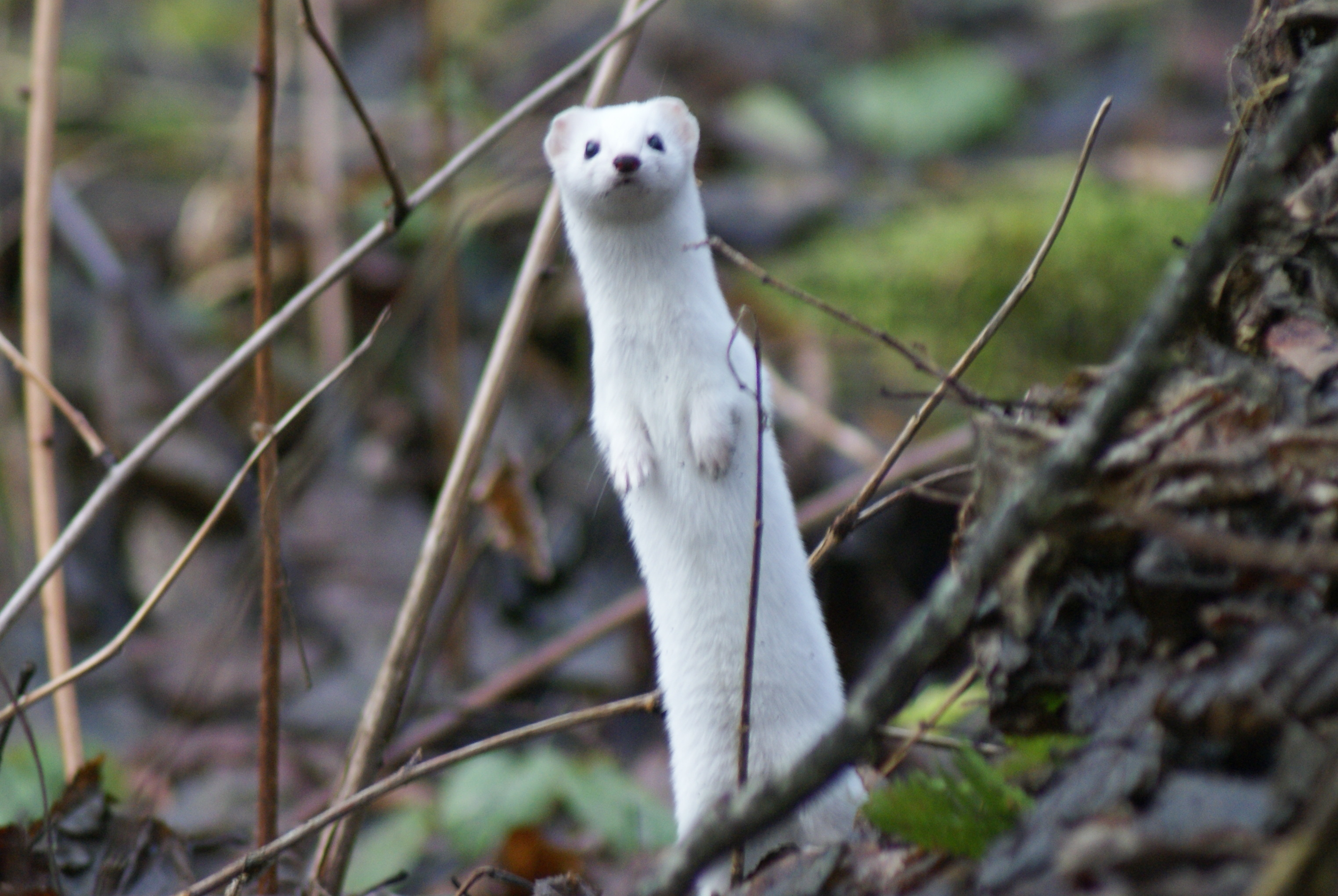 Weasel Mustela nivalis winter (Bialowieza Forest).